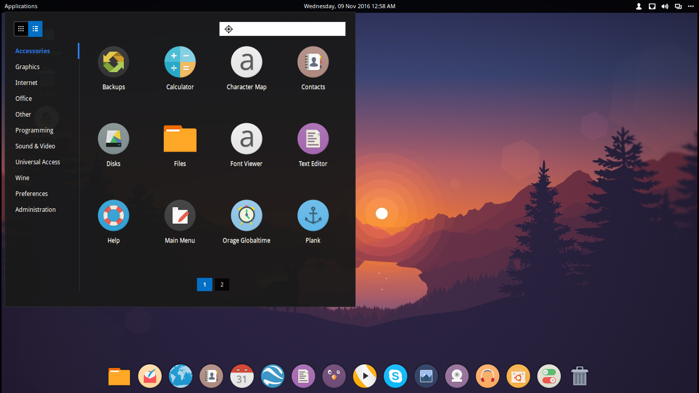 Desktop Environment of BackSlash Linux Anna